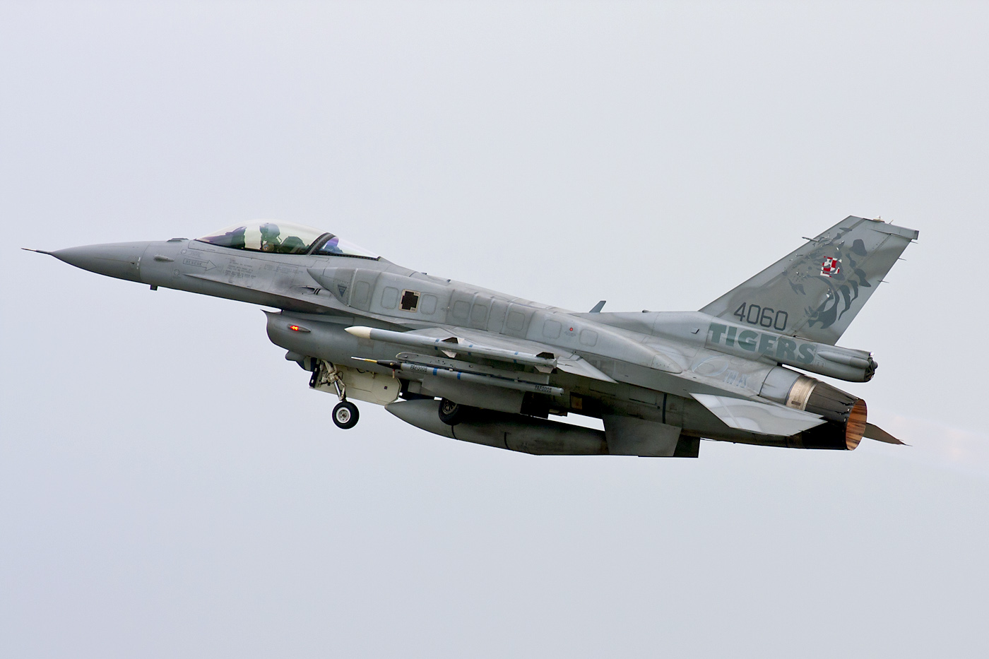 Tiger Meet Cambrai (France), 16 May 2011. The Polish of 6 ELT (Poznan-Krzesiny AB) have been members of the tiger community since 2011. So this was their first year. On the starboard side this F-16 had lost most of its grey tiger stripes.